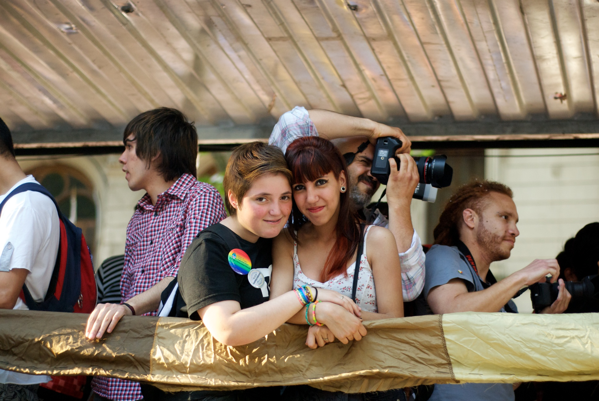 LGBT Marcha del Orgullo 2011